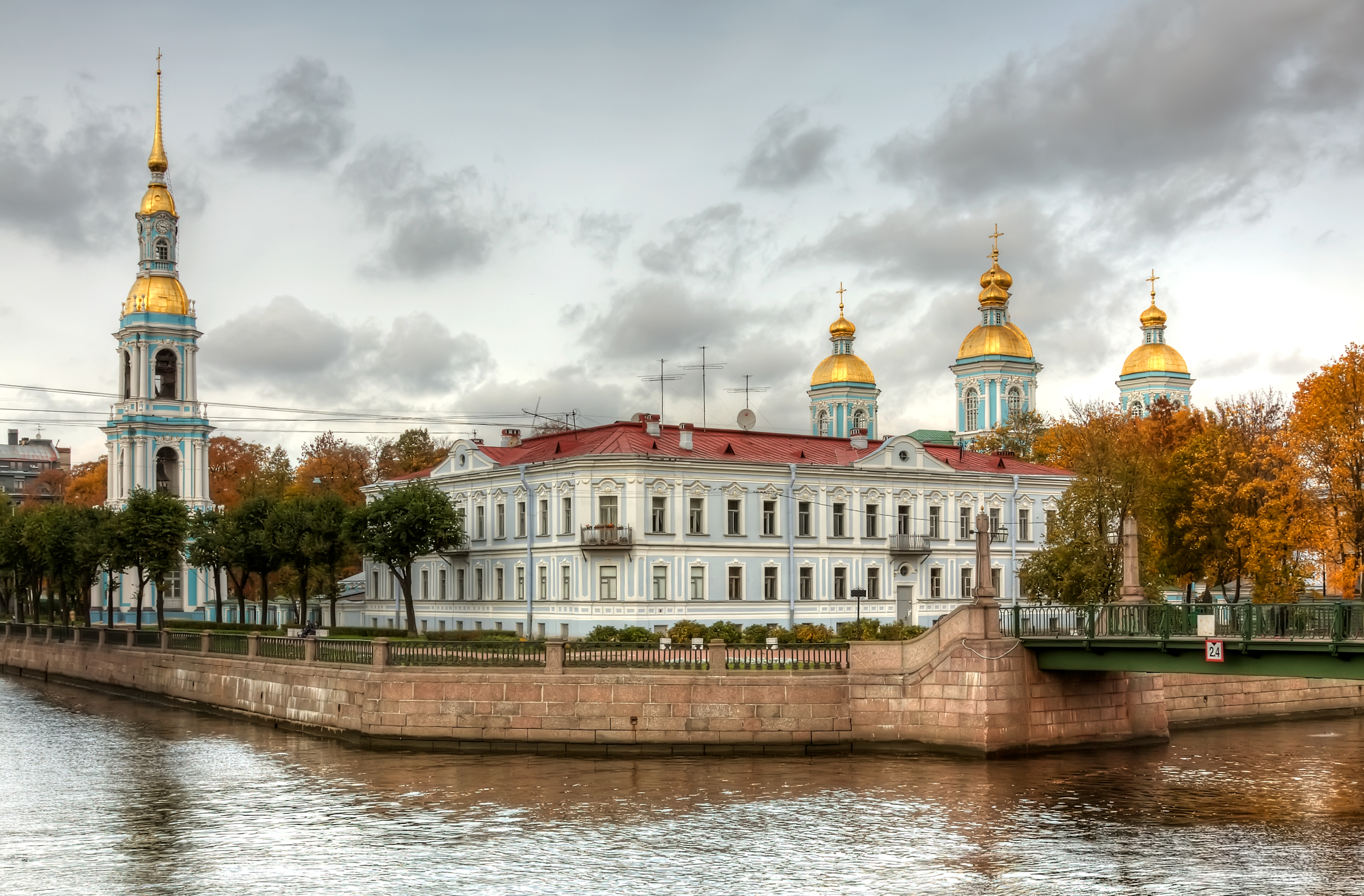 St. Nicholas Cathedral in Saint Petersburg